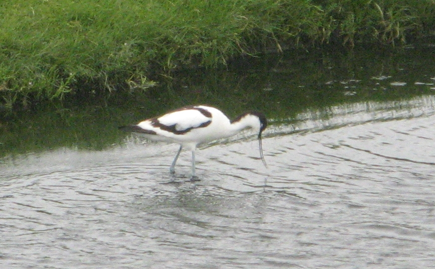 Recurvirostra_avosetta in the Speicherkoog